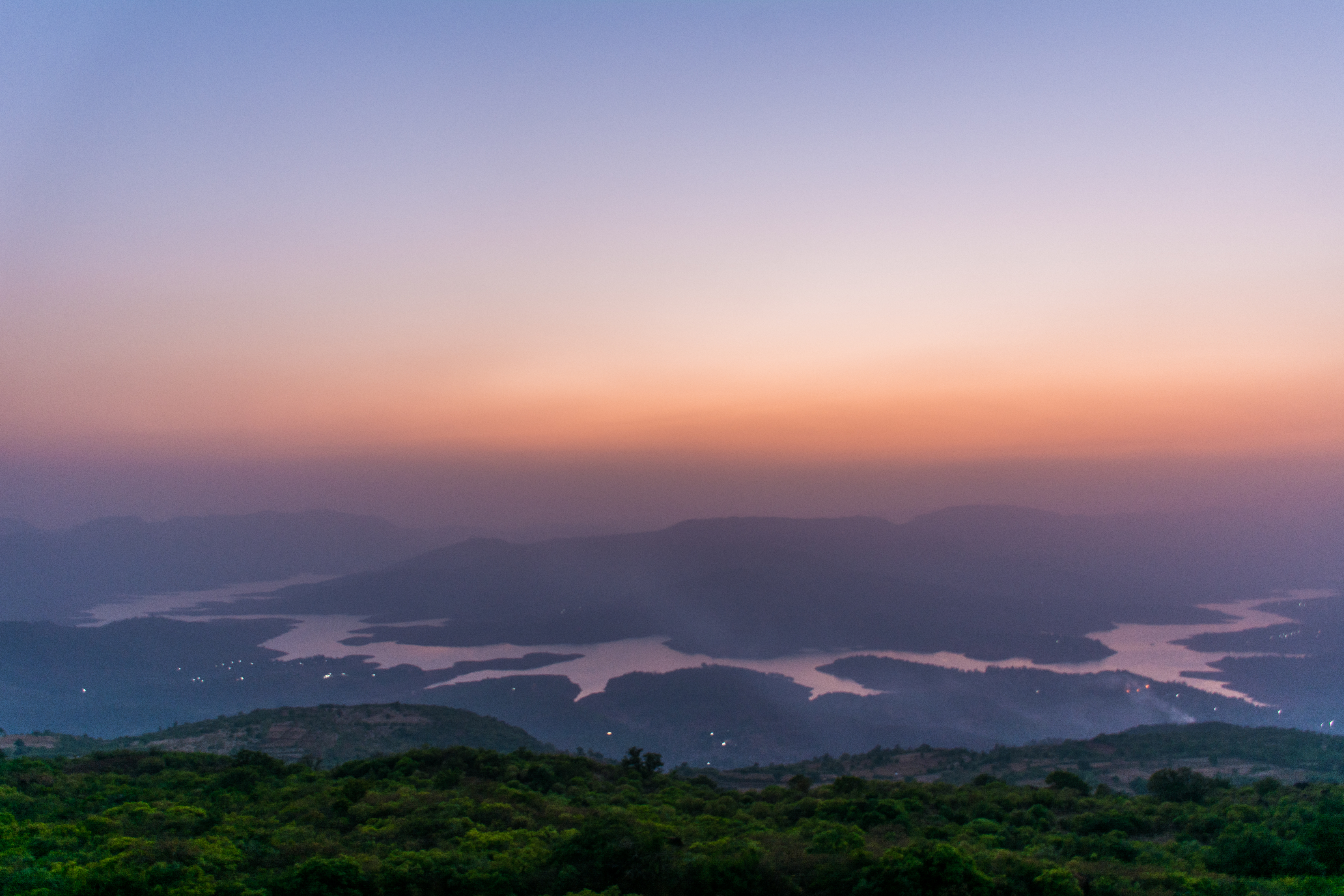 This photo is taken before starting of the Summer of 2016.This is backwater of Koyna Dam Reservoir. Photo taken from the top of a mountain on the road between Kaas & Mahabaleshwar in Satara district of Maharashtra Disctrict State. Camera used:Nikon D7100 Lense Used: Nikkor 18-140 Camera Held in Hand ! 8s